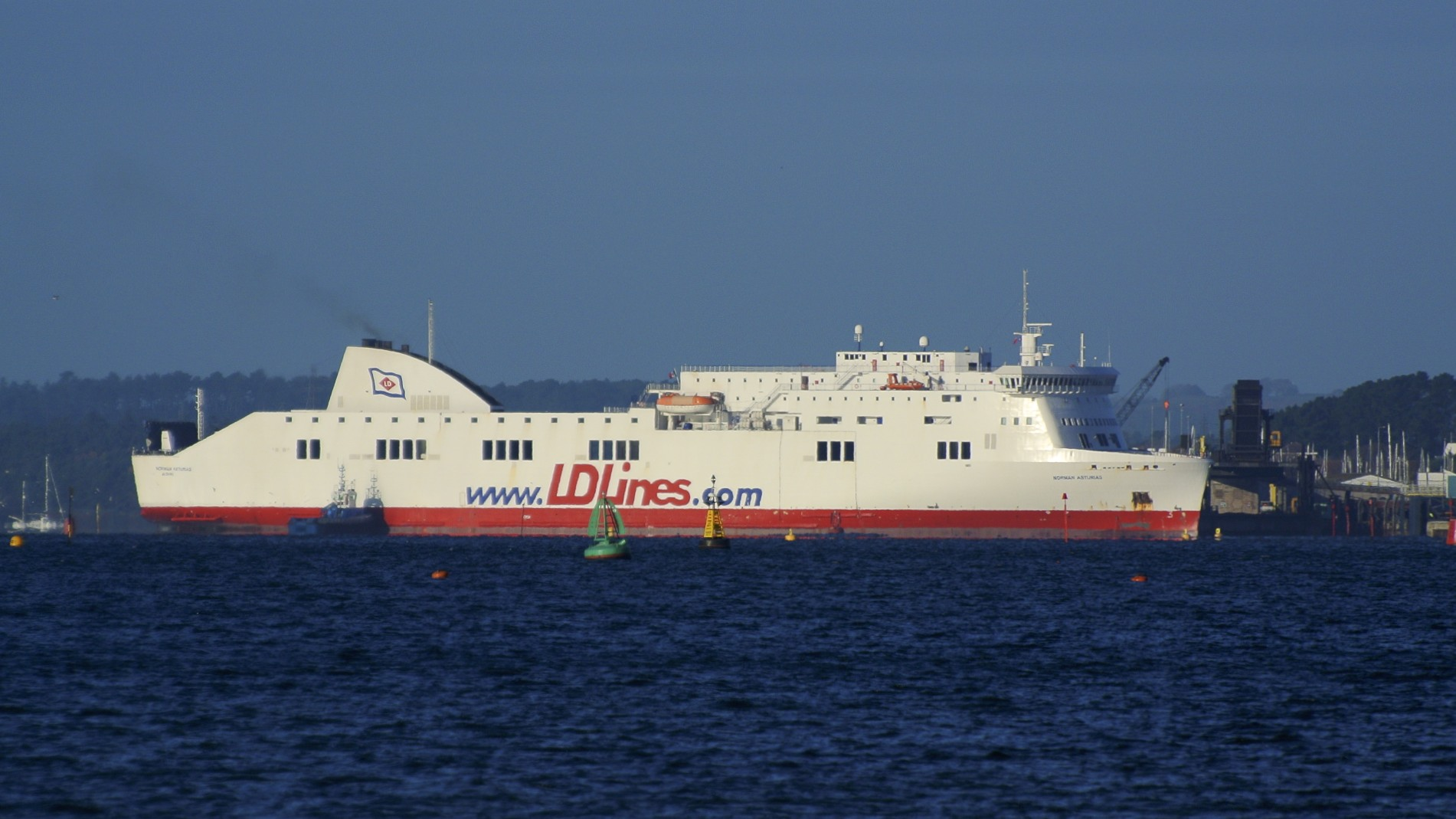 This is the largest vessel to use Poole harbour. This sequence shows the docking procedure at Poole Quay, about a mile or more from where I was standing. It pulls alongside the quay facing the direction it arrived - I assume to let off foot passengers? About twenty minutes later the tugs turn it round so vehicles can disembark from the rear.